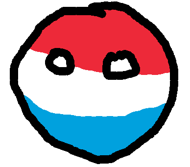 Luxembourgball